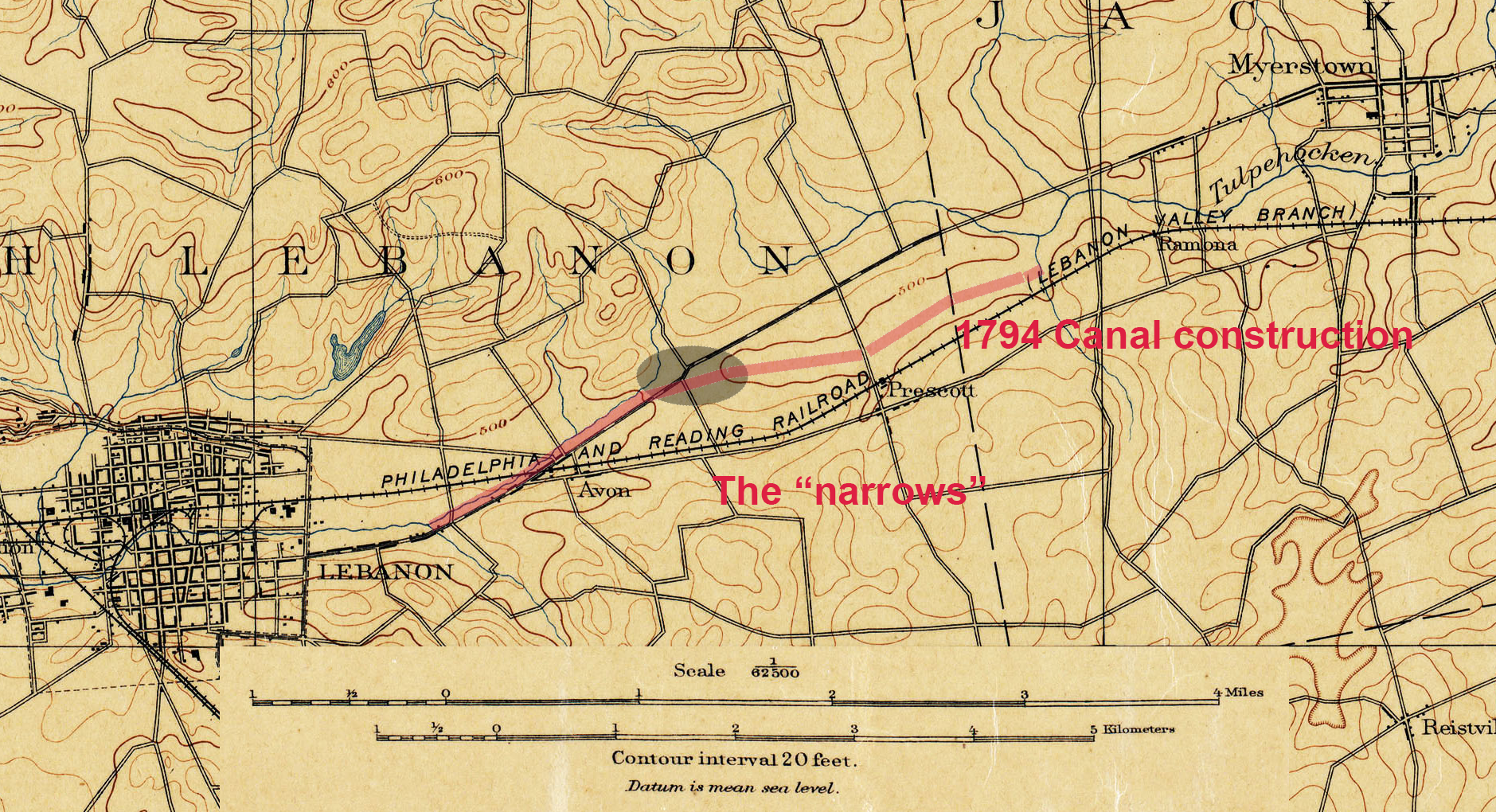 US Government map from 1889 for Lebanon county Pennsylvania. It depicts the summit crossing for the Schuylkill and Susquehanna Navigation company construction in 1793-1794. It is highlighted to show canal alignment and references the "narrows" construction.